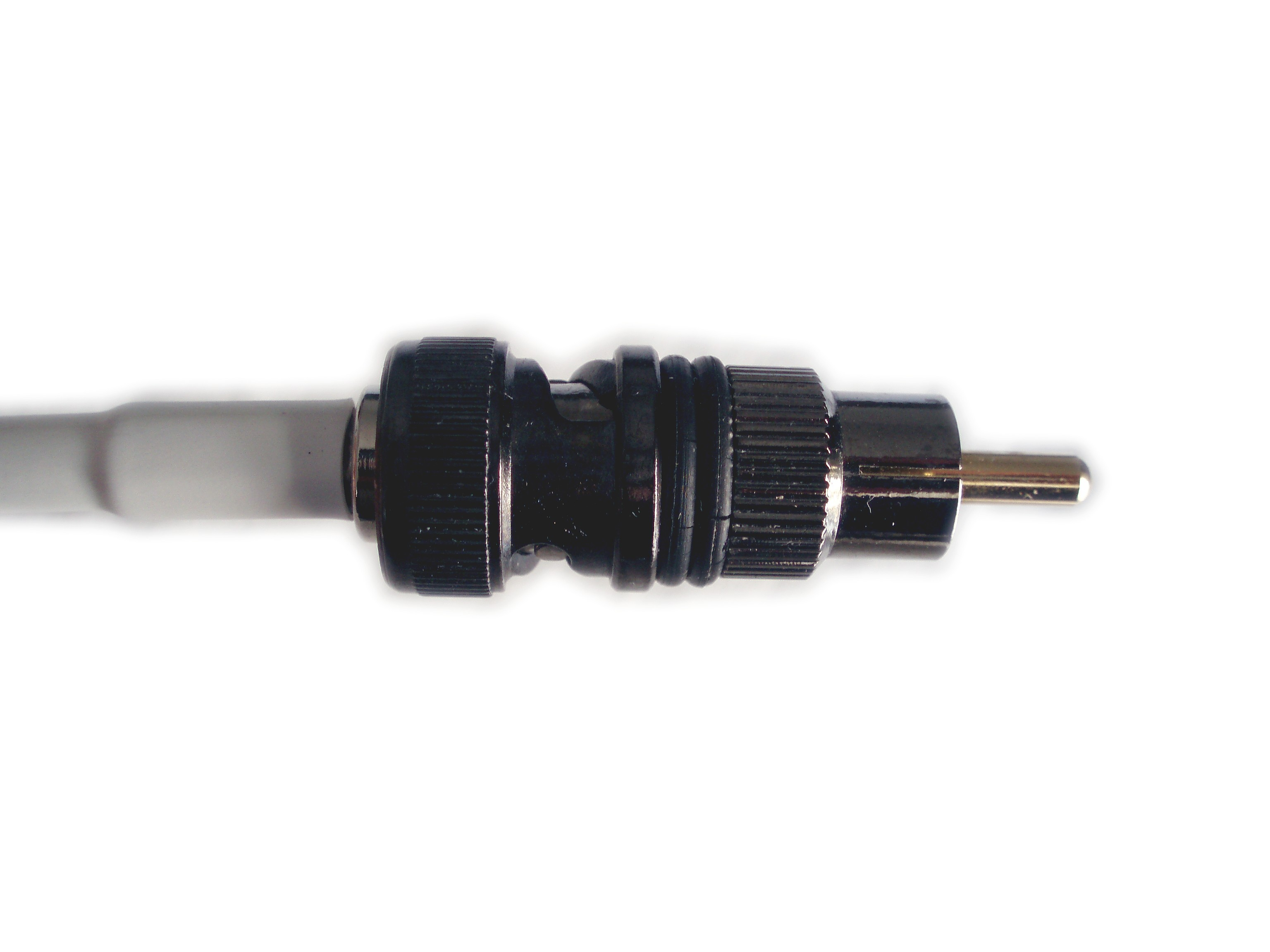 High quality adapter (BNC to RCA).